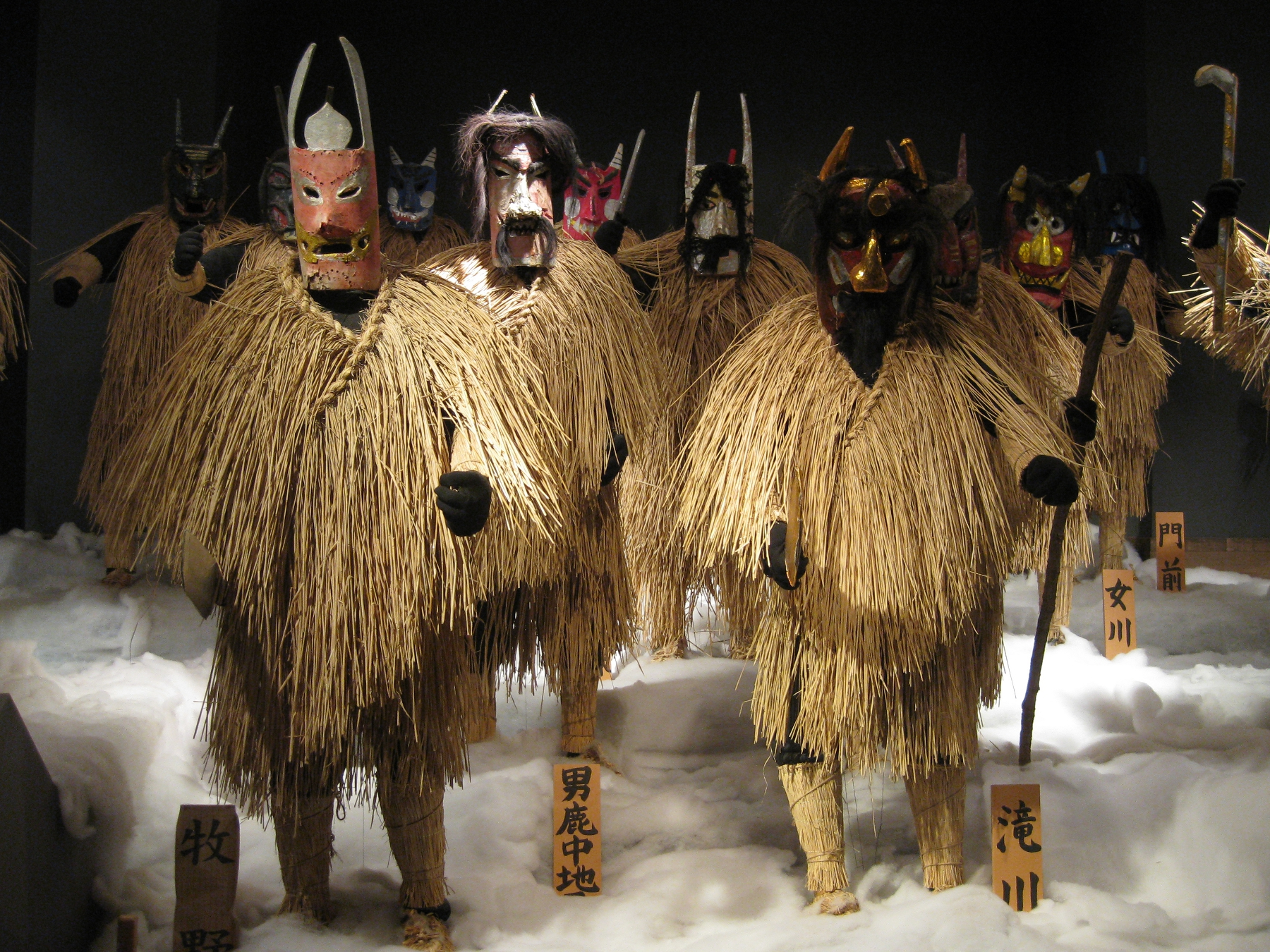 Wood and straw namahage at Namahage Museum. Oga, Akita, Japan.